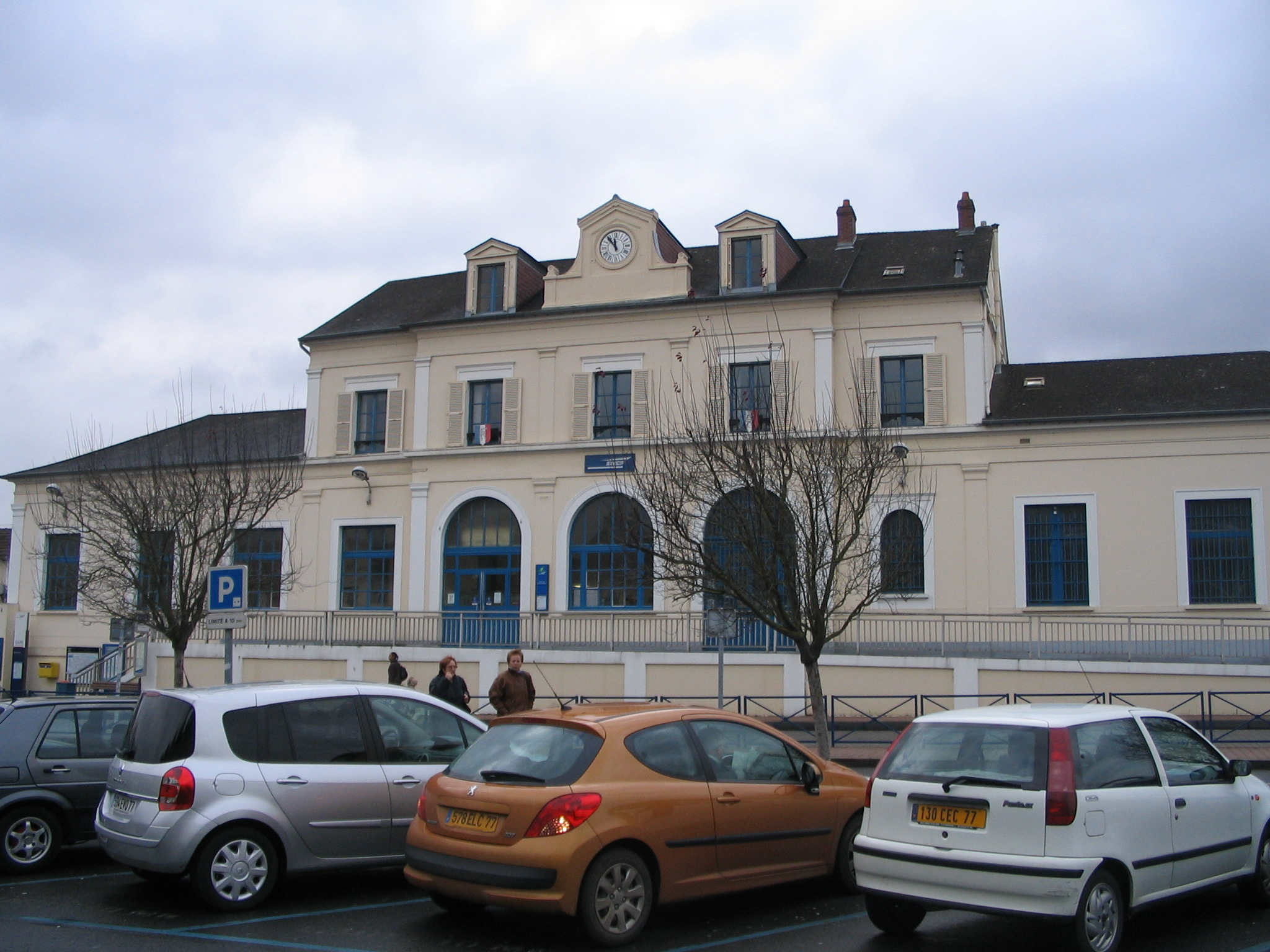 The train station of Montereau, in Montereau-Fault-Yonne, Seine-et-Marne, France.